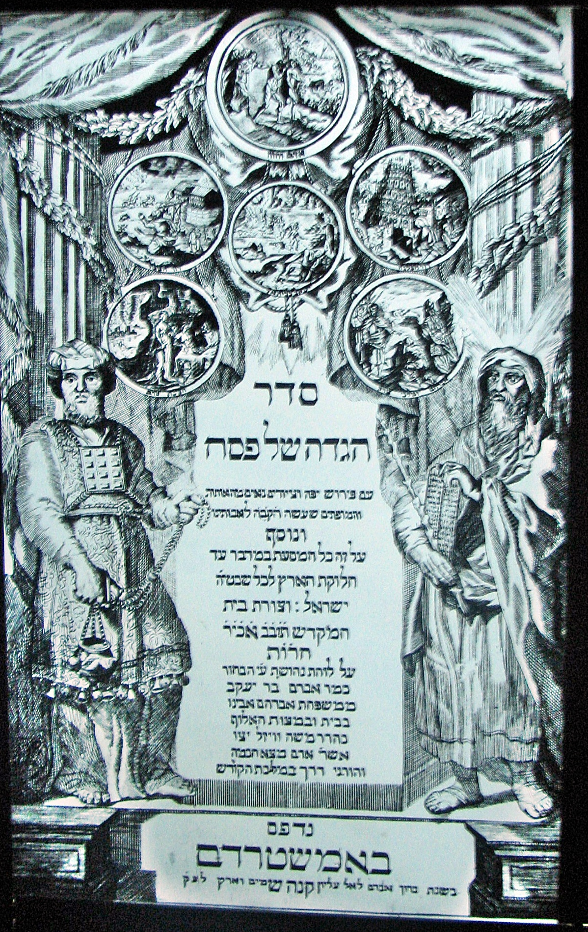 Front page of the Passover Haggadah illustrated by Abraham ben Jacob in Amsterdam. This is a photo of an exhibit at the Diaspora Museum, Tel Aviv - Beit Hatefutsot. (Photo was taken by User:Sodabottle)